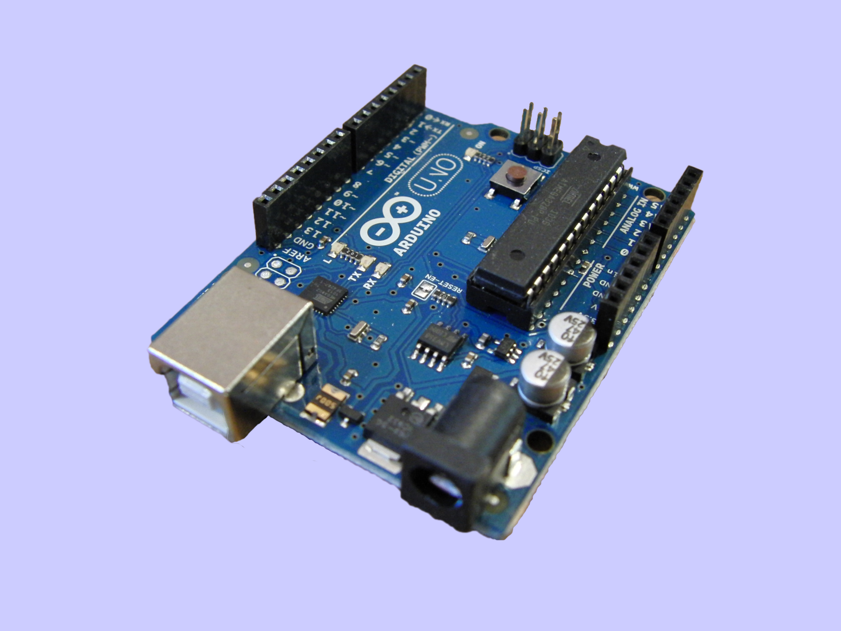 A Arduino Uno board.